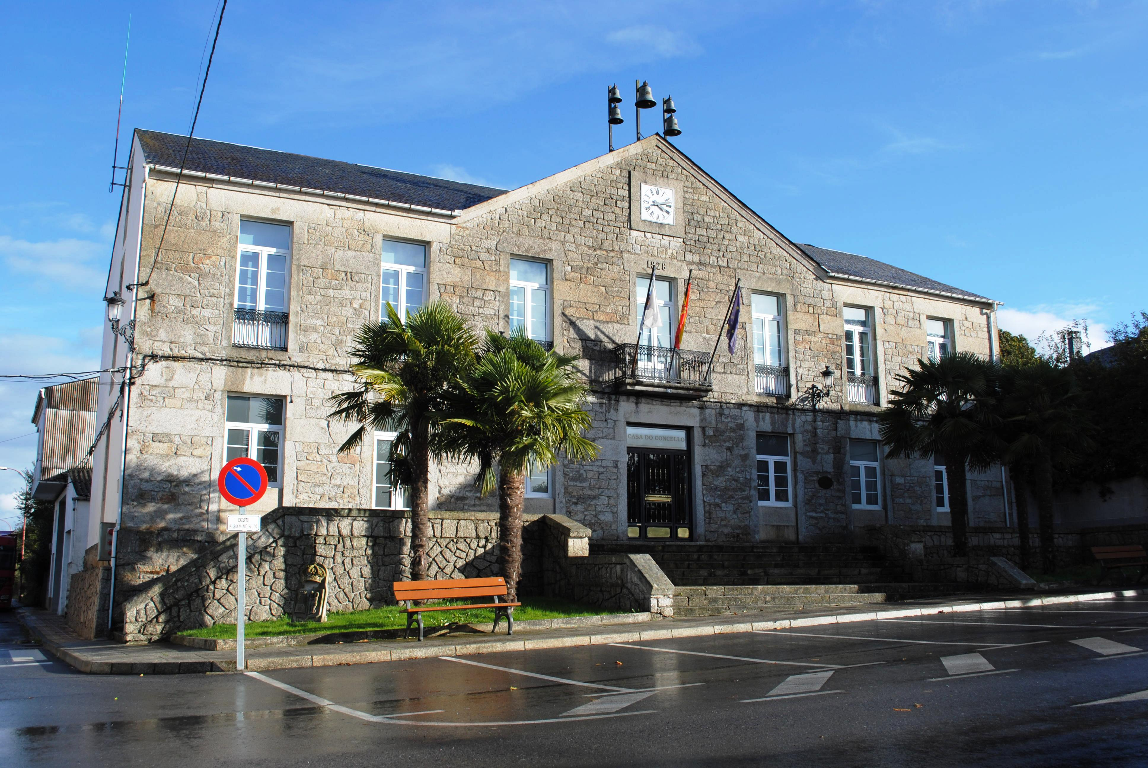 see title